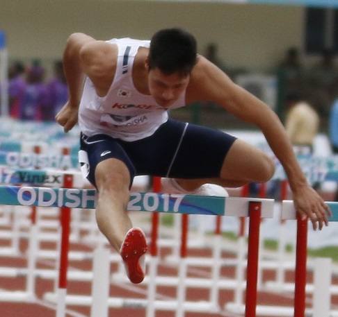 Athletes during 22nd Asian Athletics Championships in Bhubaneswar.